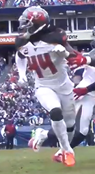 Dare Ogunbowale 2019. Image from video Jayon Brown's Pass Defense | Nissan Pylon Cam, ~ 00:15.